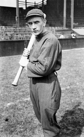 Informal three-quarter length portrait of baseball player Maranville of the National League's Boston Braves, holding a baseball bat, standing in front of grandstands and a dugout on the field at West Side Grounds, located between West Polk Street, South Wolcott Avenue (formerly Lincoln Street), West Taylor Street, and South Wood Street in the Near West Side community area of Chicago, Illinois. - Description from Library of Congress